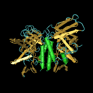 Ribbon view of the molecular structe of the heterodimer RPA14-RPA32 of the RPA complex.